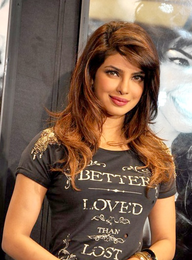 Priyanka Chopra at Guess store